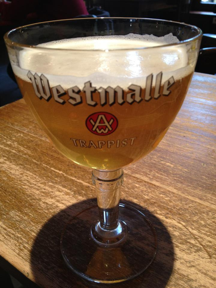 photo taken in Bruges, Belgium